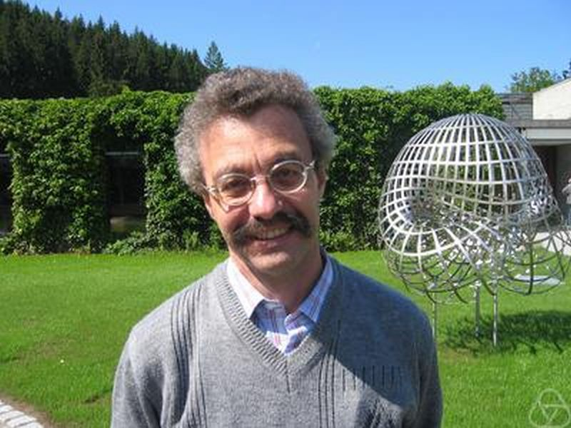 Claude Sabbah, Oberwolfach 2007